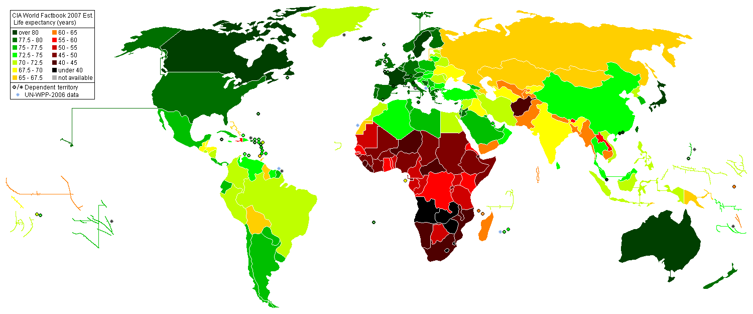 Life Expectancy at birth (years) over 80 77.5-80 74-77.5 73.5-74 72-73.5 67.5-72 72-68.5 62-68.5 56-62 51-56 46-51 40-46 under 40 not available Life expectancy at birth (years) world map including: 1) All 192 United Nations member states. 2) 26 dependent territories - marked with a white hyphen (-) or a black asterisk (*). 3) Republic of China - Taiwan. 4) Hong-Kong and Macau - Special Administrative Regions of the People's Republic of China. 5) Occupied Palestinian Territories: West Bank and Gaza Strip. 6) Western Sahara territory.